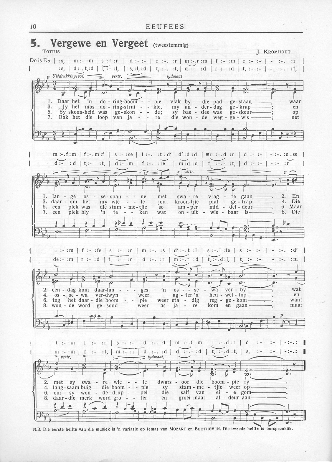 Excerpt from the F.A.K.-Volksangbundel.